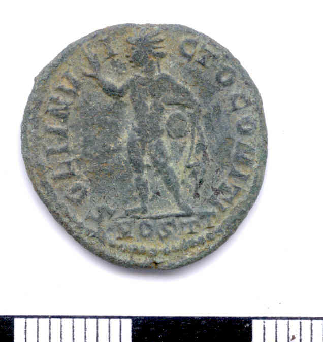 Copper alloy nummus of Maximinus II (AD 305-13), dating to AD 312-3 (Reece Period 15), SOLI INVICTO COMITI. Mint of Ostia. RIC VI, p. 409, no. 84a